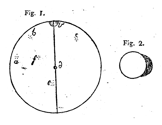 Friedrich Artzt’s drawing of the satellite of Venus, as seen during the 1761 transit. To the left (large circle) is the Sun, Venus is at the top (v). The satellite is near the center (∂). To the right is the Artzt impression of "fluid and transparent substance" near the south pole of Venus.